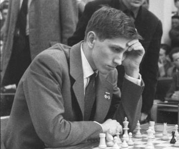 Germany Zentralbild/Kohls/Leske 1.11.1960 XIV. Schacholympiade 1960 in Leipzig Im Ringmessehaus in Leipzig wird vom 16.10. bis 9.11.1960 die XIV. Schacholympiade ausgetragen. Am 28.10.1960 begannen die Kämpfe der Finalrunde. UBz: UdSSR - USA: .Weltmeister Tal - Internationaler Großmeister Fischer United States of America United States of America Central image / Kohls / Leske Nov. 1, 1960 w:14th Chess Olympiad, 1960 in Leipzig In the tournament in Leipzig took place between October 26(16?) and November 9, 1960. On Oct. 28, 1960 the final round began. Shown here: USSR - USA: World Champion Tal - Fischer International Grandmaster. "The clash of two top stars was short but pithy game" resulting in a draw. This is game 23 in Fischer's . Tal is in the act of playing 7 ... Ne7.